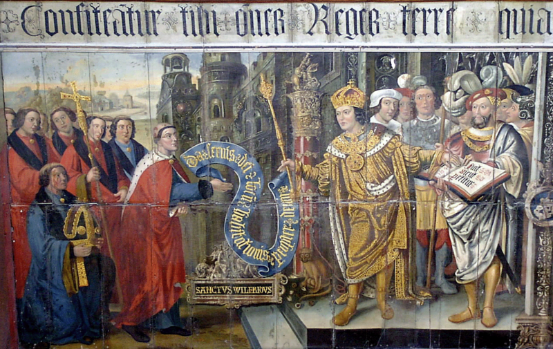 Original source describes this painting as follows: "In 686 king Caedwalla issued a charter confirming the rights and territories previously given to Wilfrid by king Aethelwealh and the estate of the Hundred of Pagham including Shripney, Charlton, Bognor, Bersted, Crimsham, Mundham and Tangmere. The handing over of the charter is brilliantly depicted in the Lambert Barnard mural in the south transept of Chichester Cathedral commissioned by Bishop Robert Sherburne c 1508-1536." The man in white looking over the left shoulder of the king is believed to be a self-portrait of the artist.